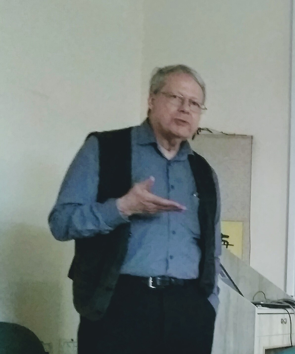 A man lecturing.